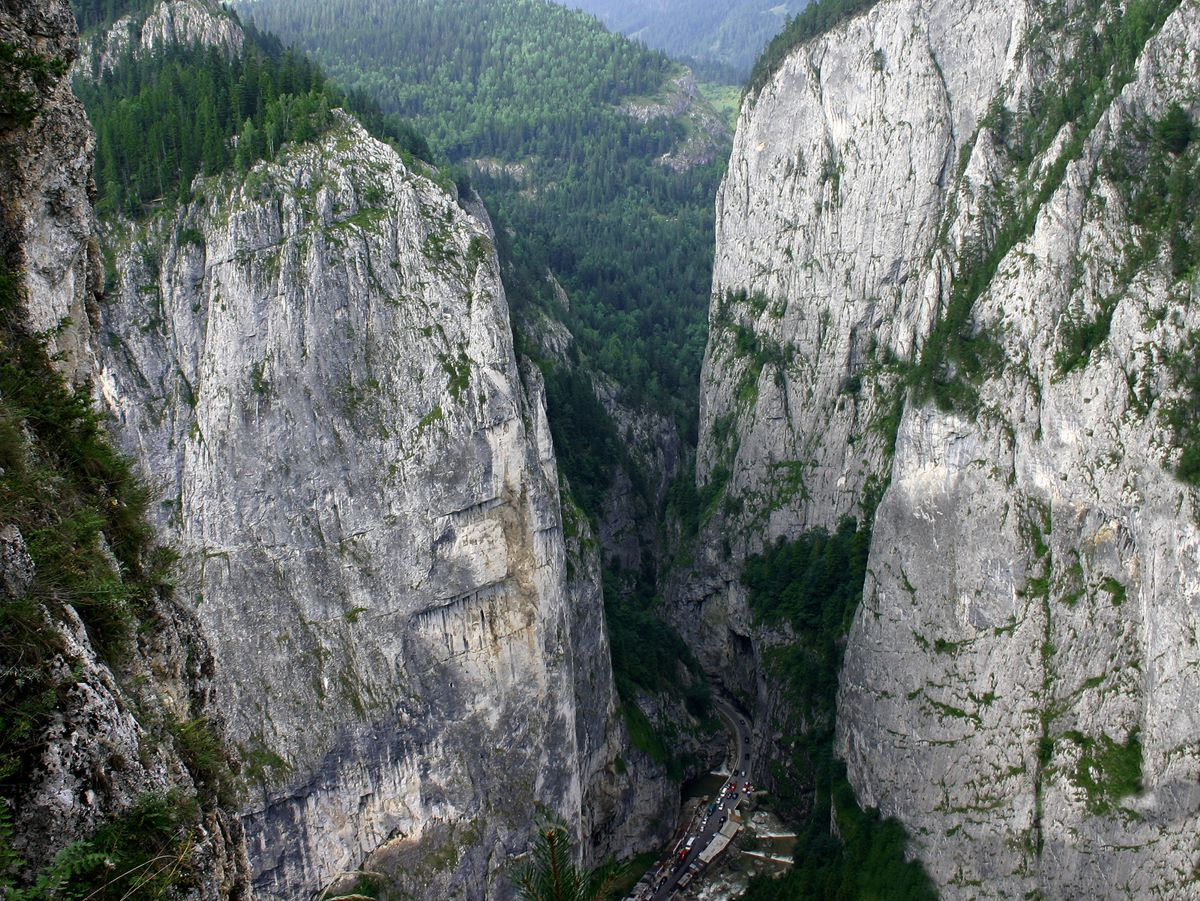 View of Bicaz Canyon from Maria Cliff, Transylvania, Romania